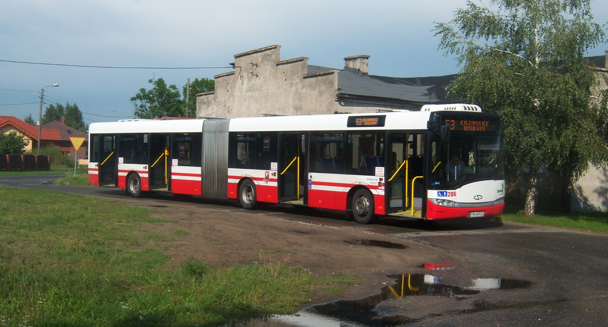 Solaris Urbino 18 bus (#286) in Barczygłów near Konin, Poland. Built 2010, MZK Konin operator.